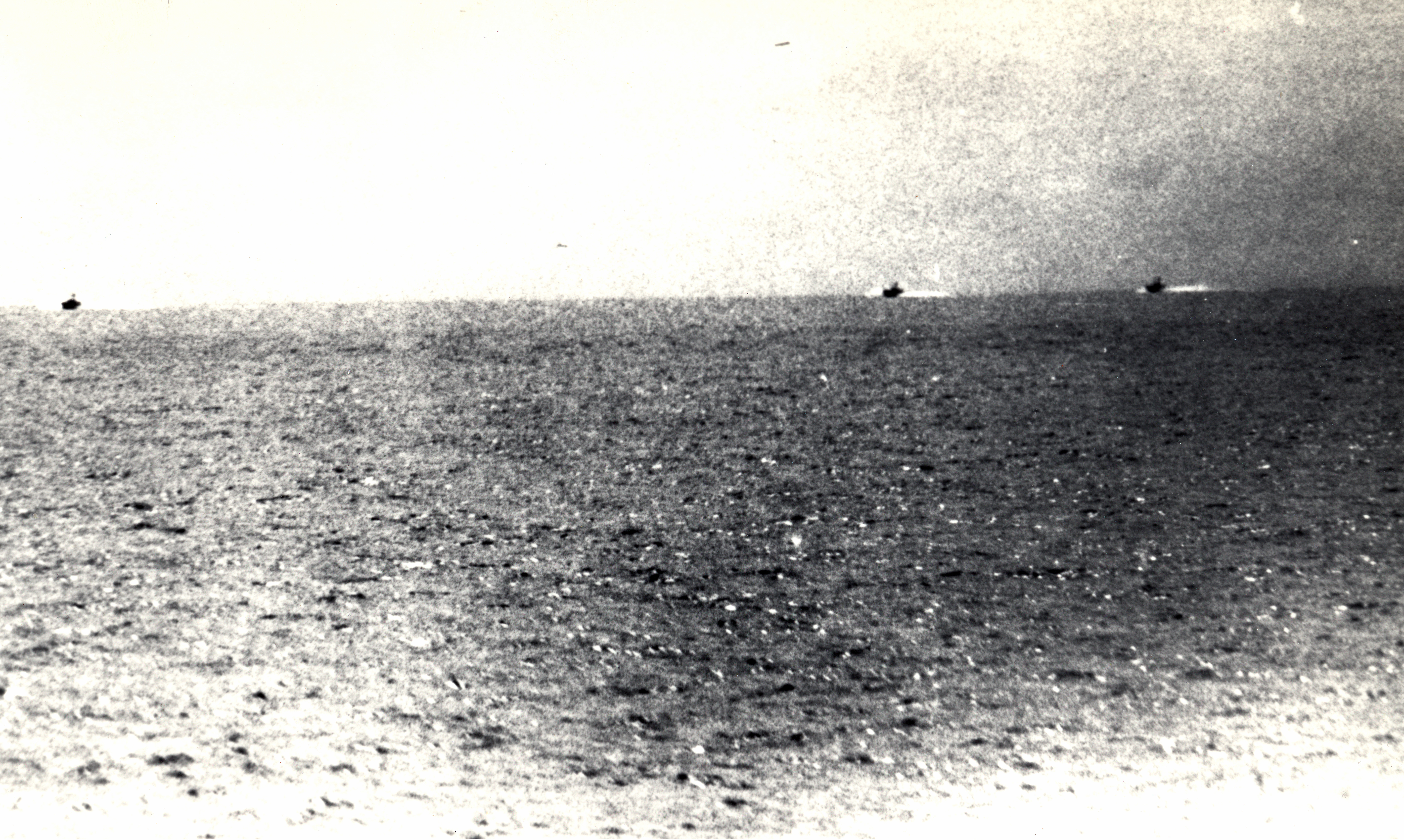 Photograph taken from USS Maddox (DD-731) during her engagement with three North Vietnamese motor torpedo boats in the Gulf of Tonkin, 2 August 1964. The view shows all three of the boats speeding towards the Maddox.""